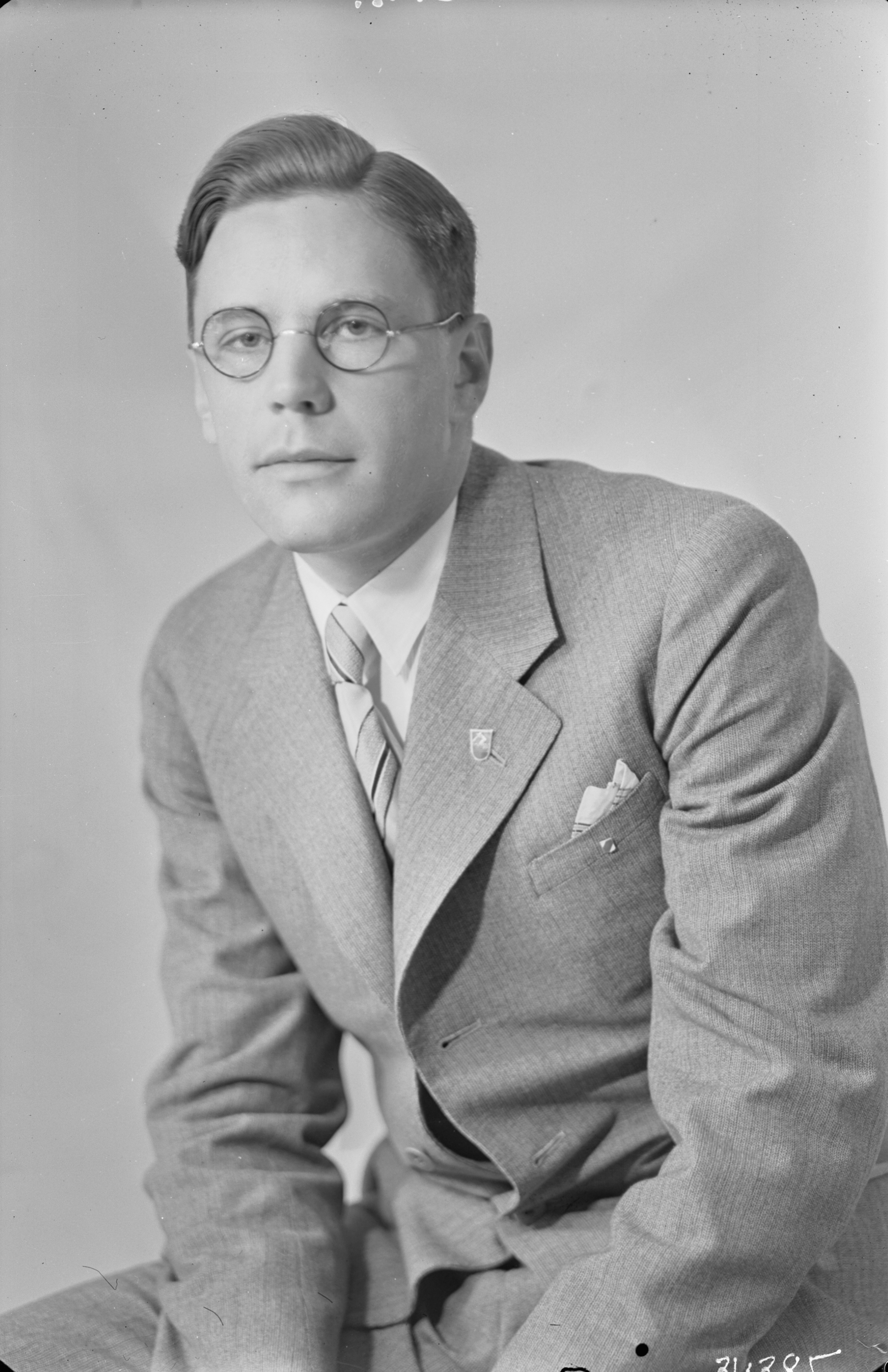 Photograph of the Finnish journalist and literature scholar Ilmari Heikinheimo (1891–1966).